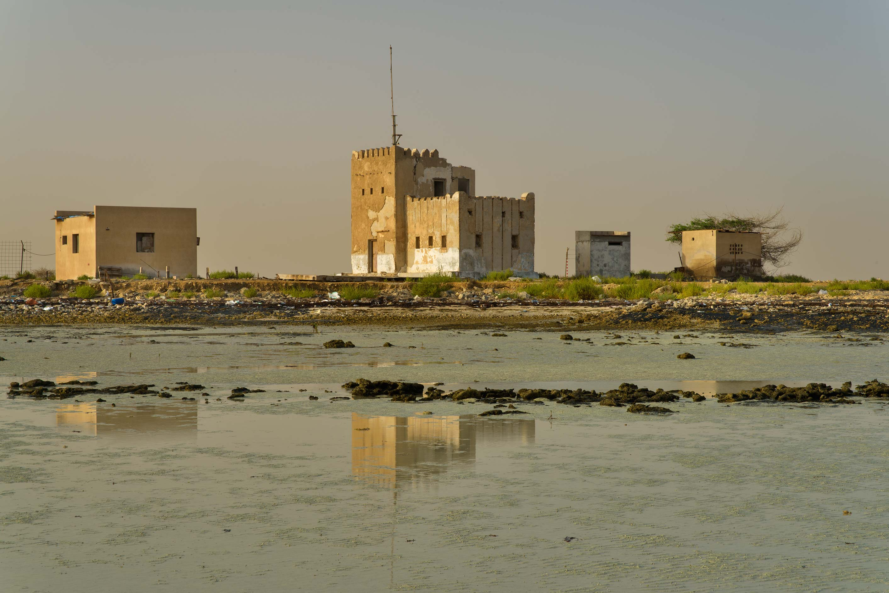 Al Arish police station in northern Qatar, view from a beach.